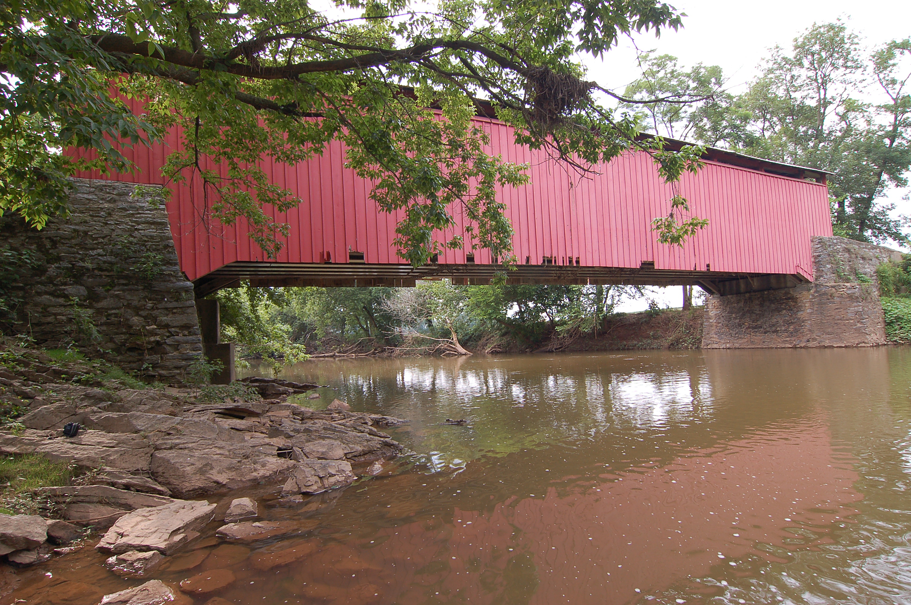 A photograph of the side of the Bitzer's Mill Covered Bridge. The bridge is located in Lancaster County, Pennsylvania.